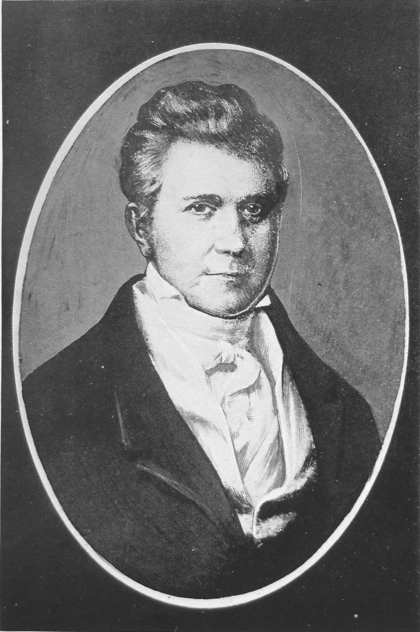 Portrait of early Tennessee politician and diplomat John Williams (1778–1837).